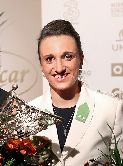 Lara Vadlau, sailor at 2012 Summer Olympics and 2016 Summer Olympics (AUT)